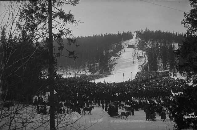 Holmenkollbakken, Oslo, in 1917